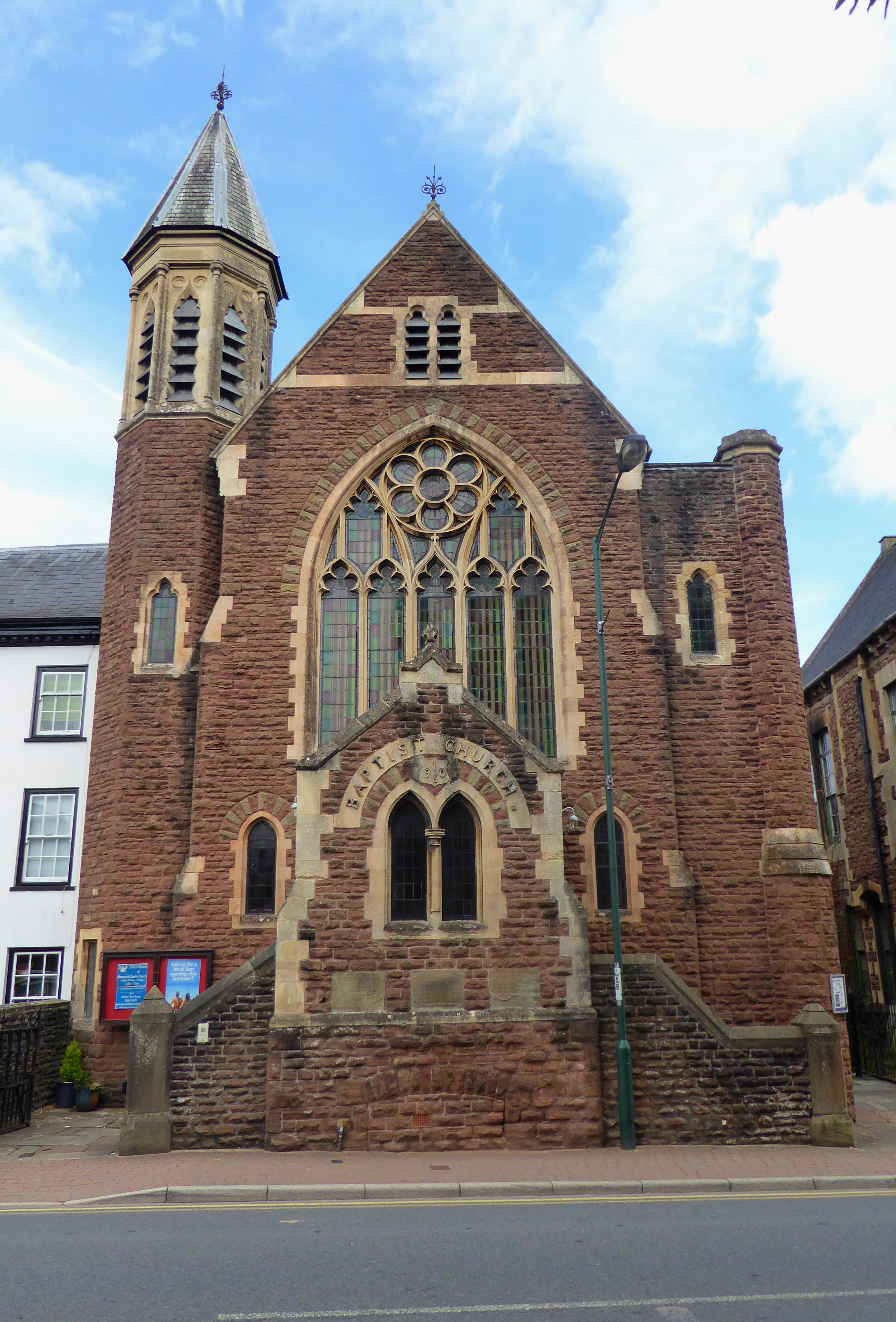 The front of Monmouth Baptist Church in Monmouthshire.